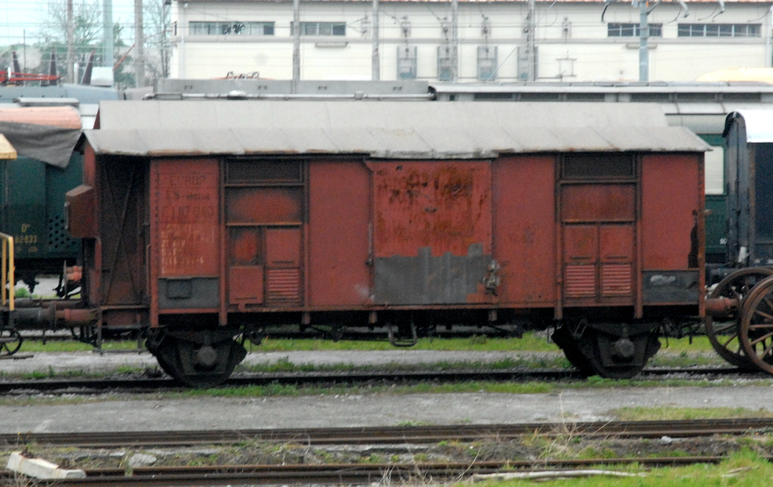 Photos from the FS railway deposit in Pistoia, Italy. Old F wagon